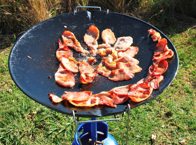 Breakfast on a SkottelbraaiAfrikaans: Ontbyt op 'n Skottelbraai